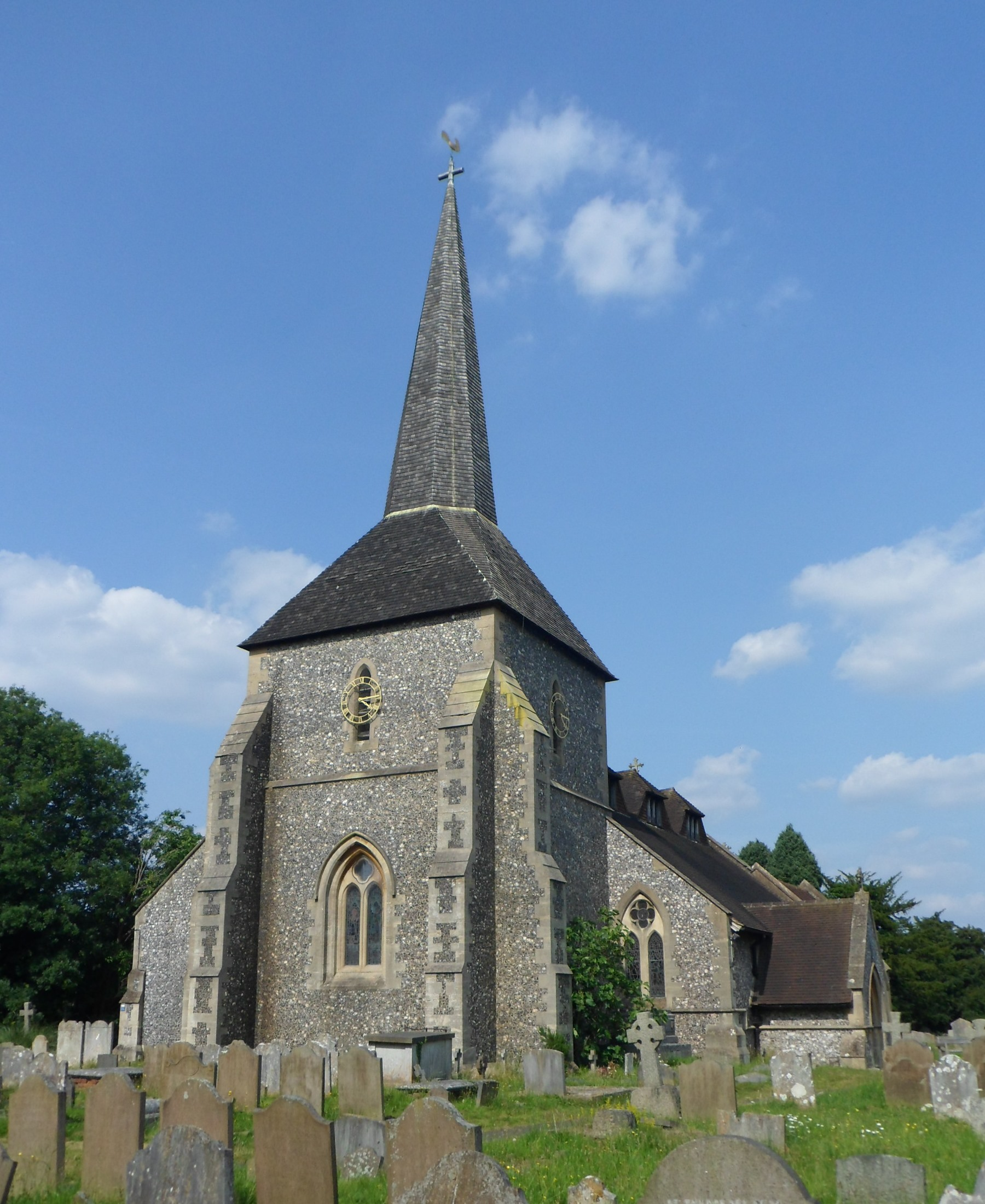 All Saints Church, High Street, Banstead, Reigate and Banstead District, Surrey, England. The Anglican parish church of Banstead. Listed at Grade II* by English Heritage (NHLE Code 1029028)